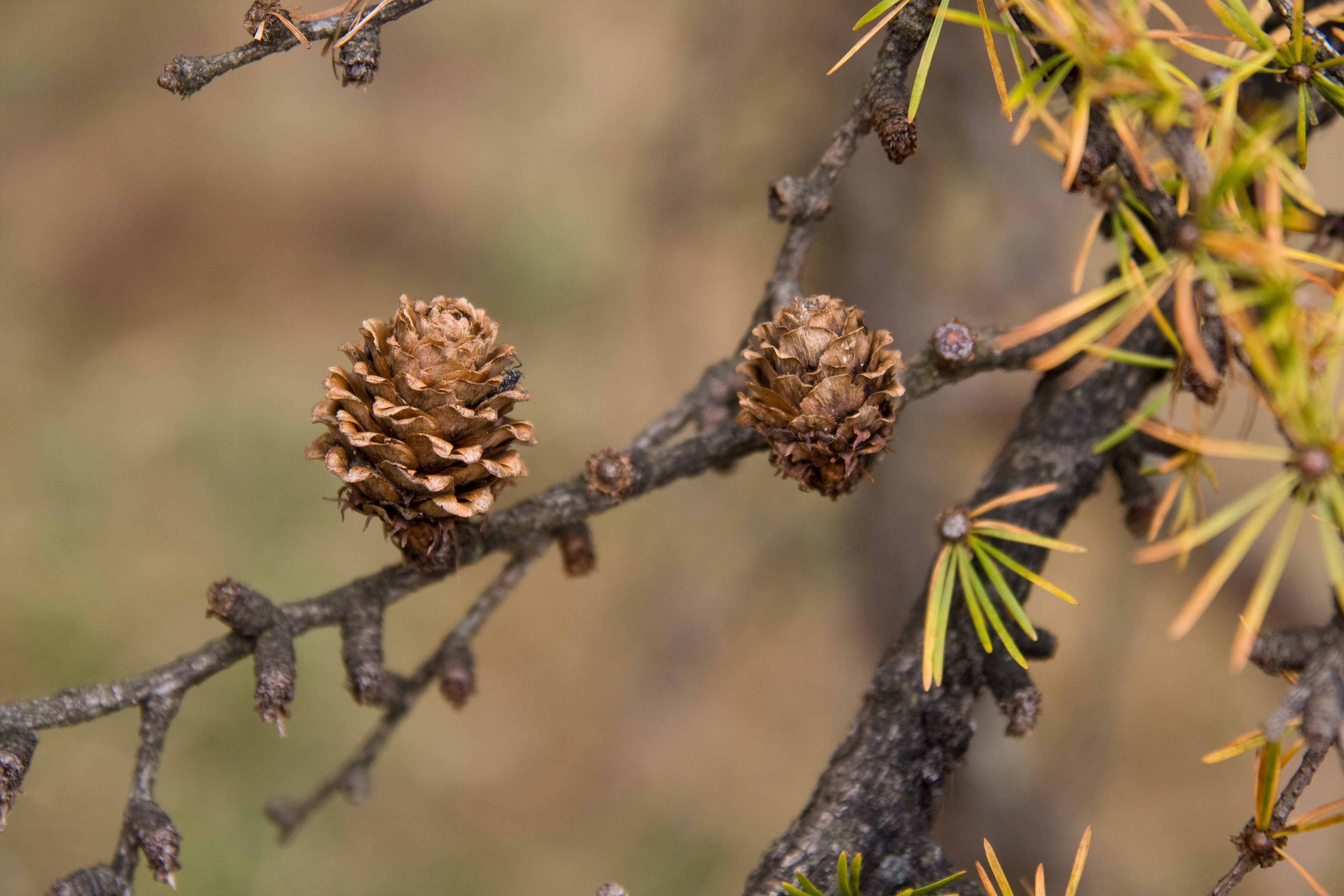 Japanese Larch Larix kaempferi, Mt. Himetsugi, Tanzawa Mountains, Japan. Altitude - 1430m